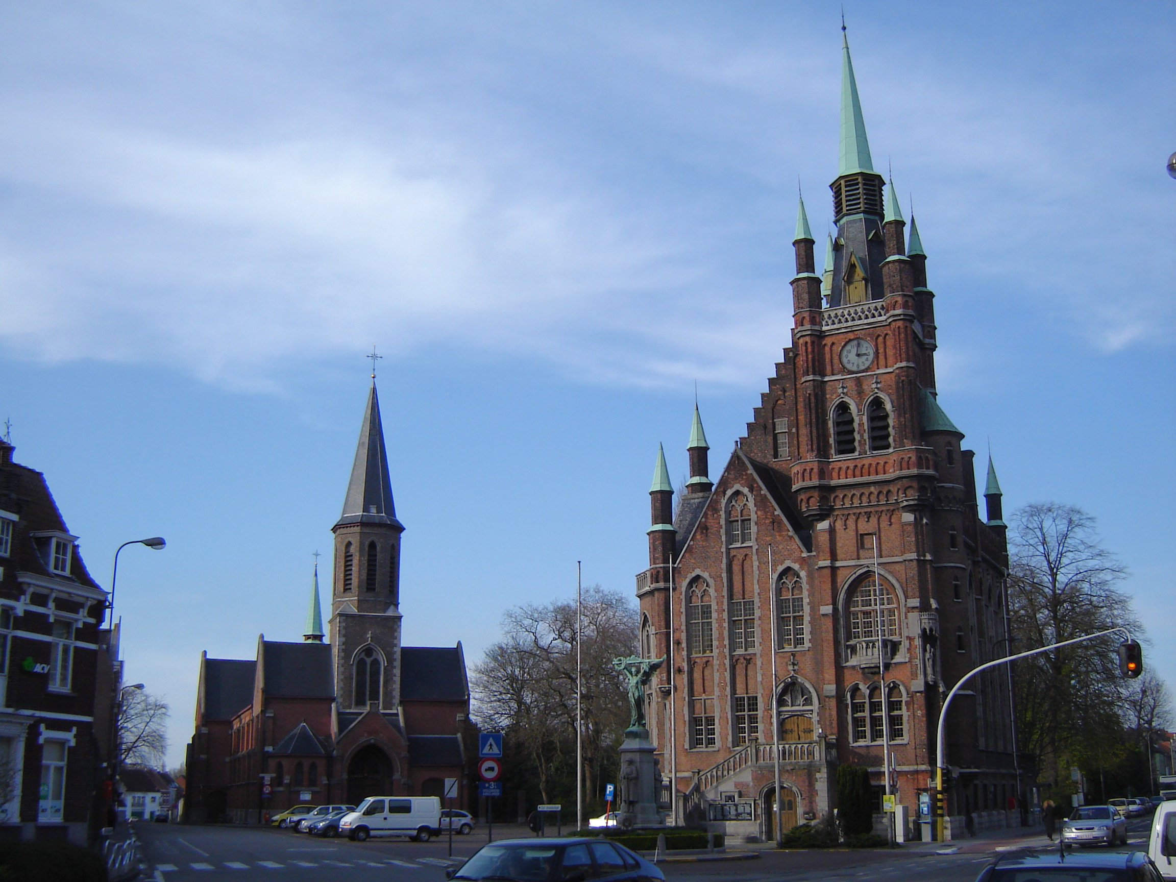 Center of Sint-Amandsberg, with former town hall and church of Saint Amand. Sint-Amandsberg, Gent, East Flanders, Belgium